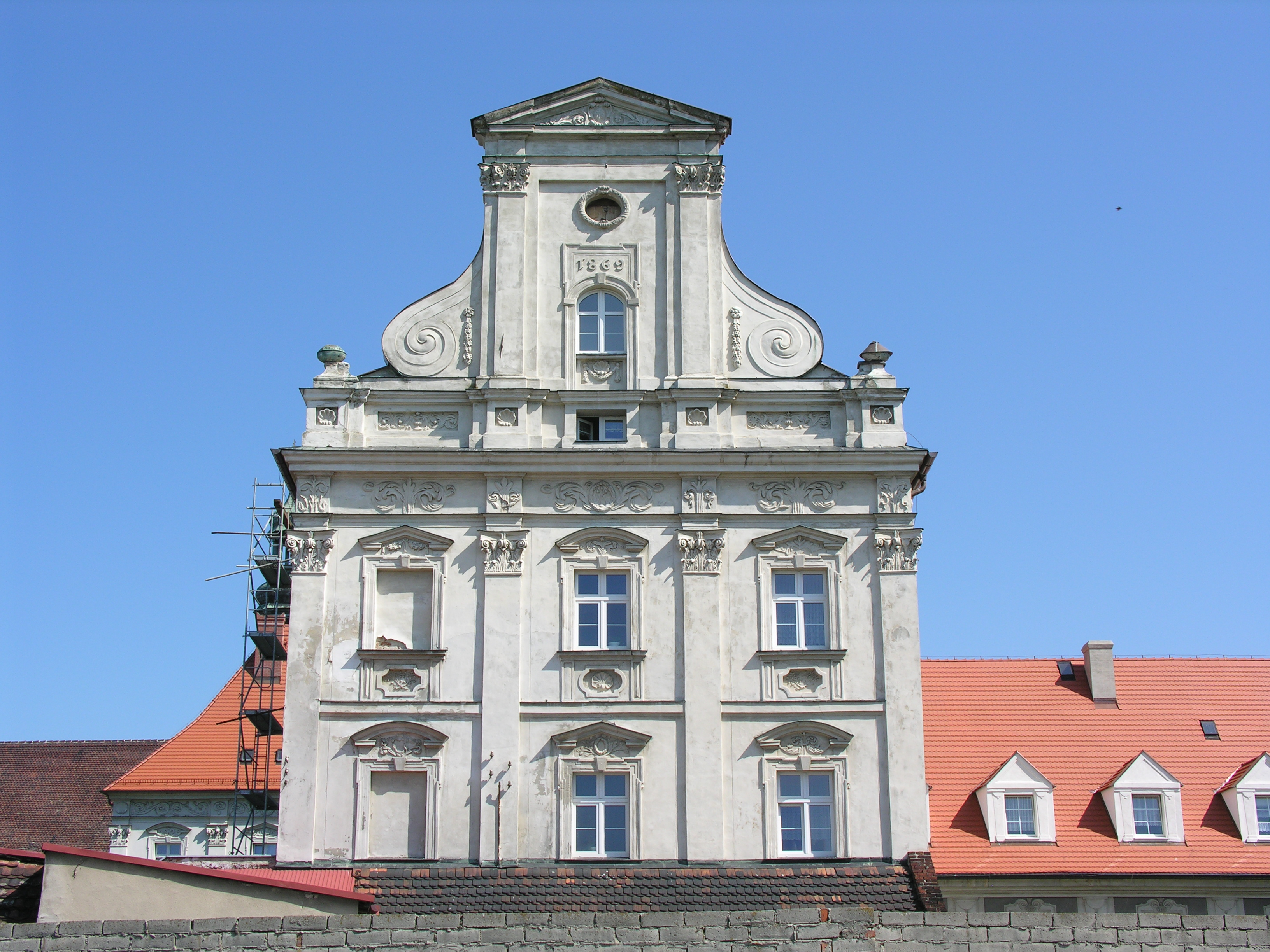 Czarnowąsy